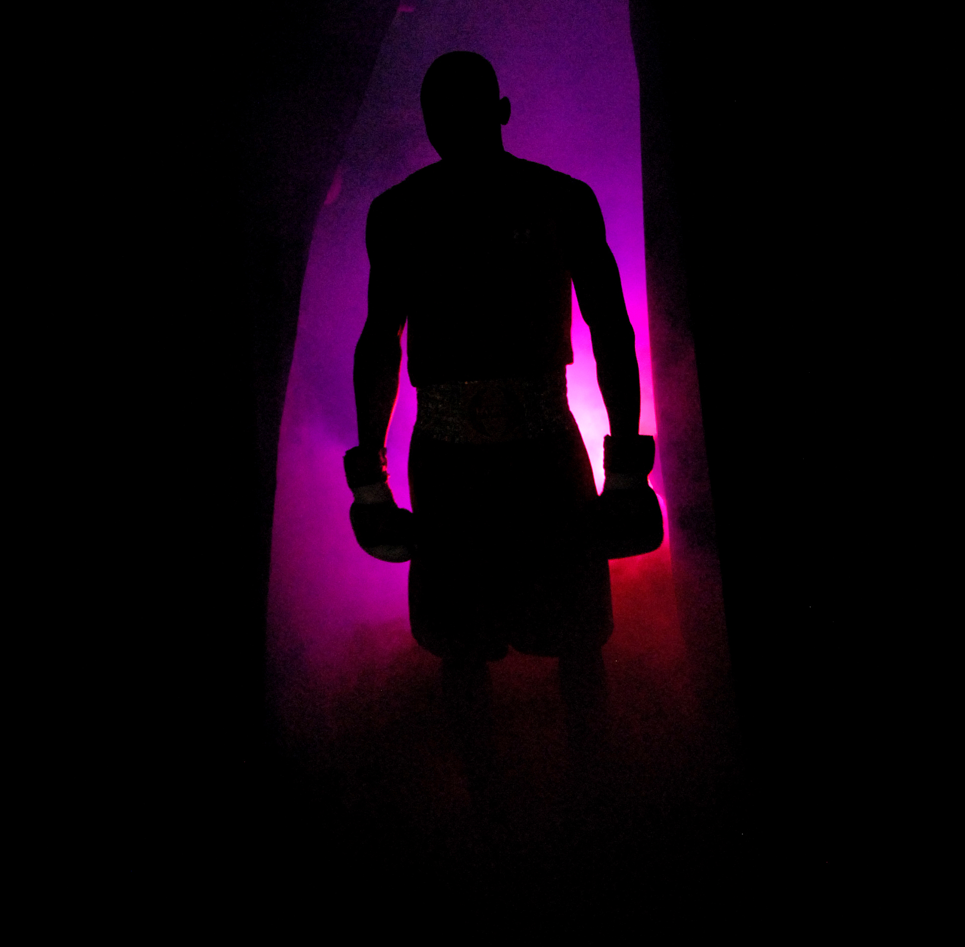 NAVAL BASE VENTURA COUNTY (April 23, 2010) A boxer exits the tunnel on the last night of the Armed Forces Boxing Championships at Naval Base Ventura County. (U.S. Navy photo by Mass Communication Specialist 1st Class Aaron Peterson/Released)